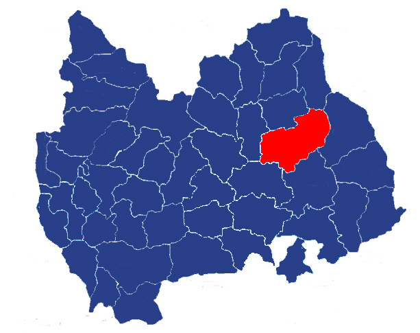 Location of Moycarkey-Borris parish in the Diocese of Cashel and Emly